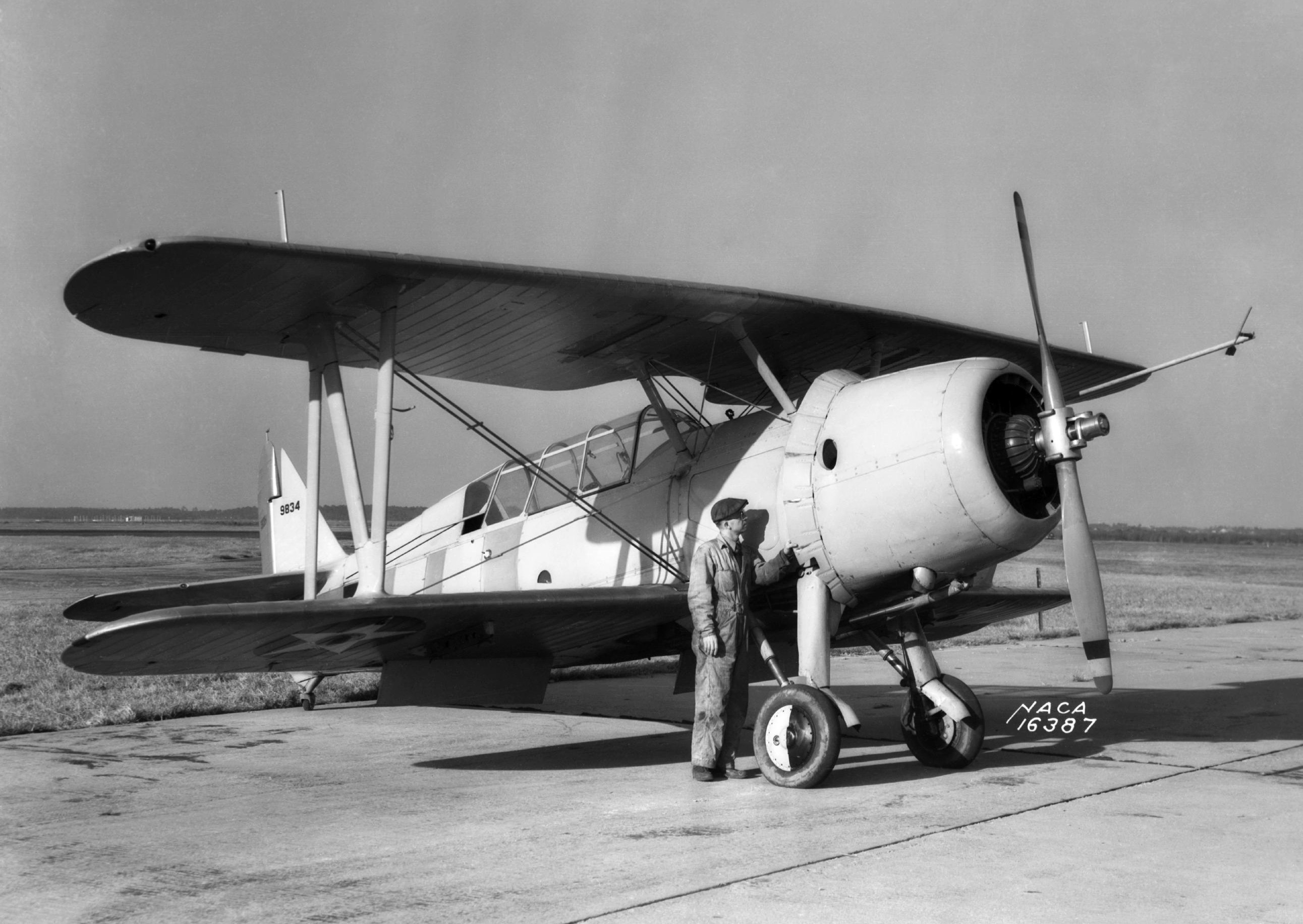 The Vought XSB3U-1 (BuNo 9834) at the NACA Langley Research Center, Virginia (USA), 1 December 1938. One plane was built, making its first flight in 1936. It was basically a SBU-2 and the first biplane built by Vought with retractable gear. It was offered to the U.S. Navy at the same time as XSB2U-1 Vindicator monoplane, in case the SB2U was not bought by the U.S. Navy. Note that the XSB3U-1 has a test boom off the left upper wing. The plane was at Langley for NACA's investigation of tail loads.